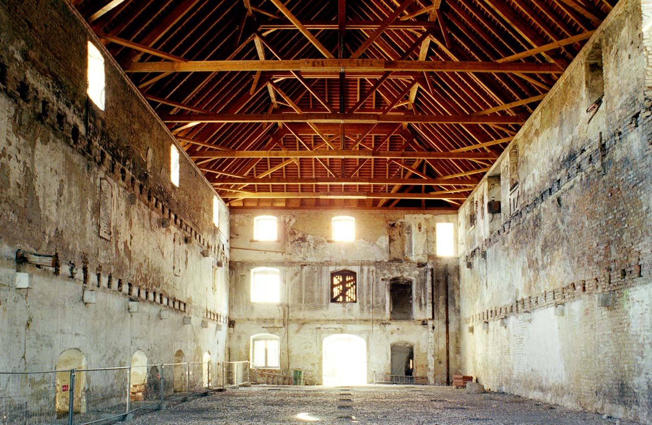 Jeu de paume (Ballhaus) of Neugebäude Palace. After the palace was converted for military purposes in the 18th century, the former jeu de paume hall was partitioned by two floors. After a fire on the roof in the 1990's, the two floors were damaged and were subsequently removed, restoring the original hall. (For the game, see this image.)